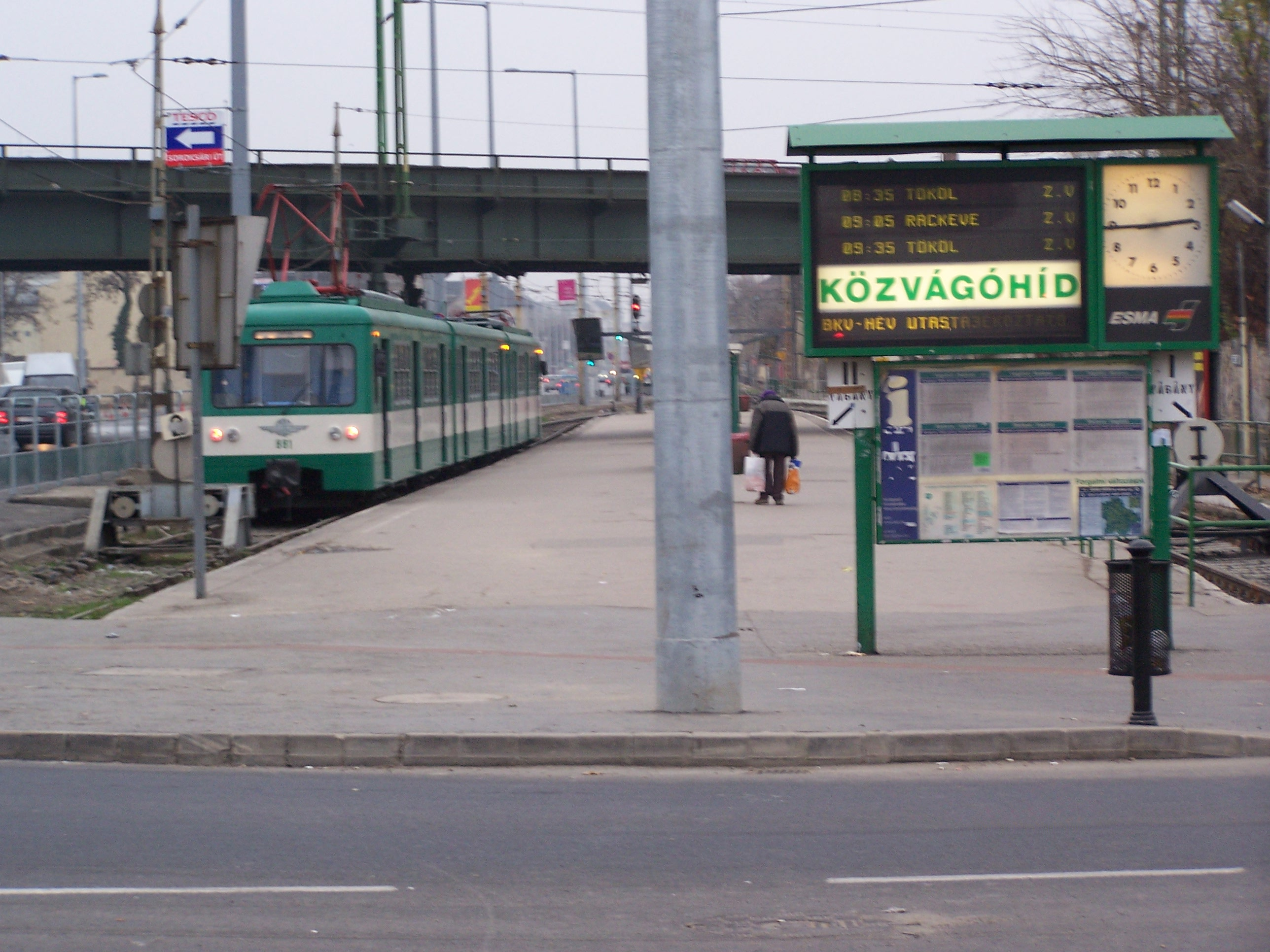 Budapest Local Railway